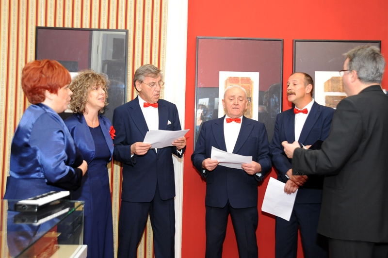 Celebration the 400th Anniversary of Capuchin Arrival in Croatia, or in 1610 established the first Capuchin monastery in Rijeka /translated by google/ Located in Maritime and History Museum of the Croatian Litoral Rijeka